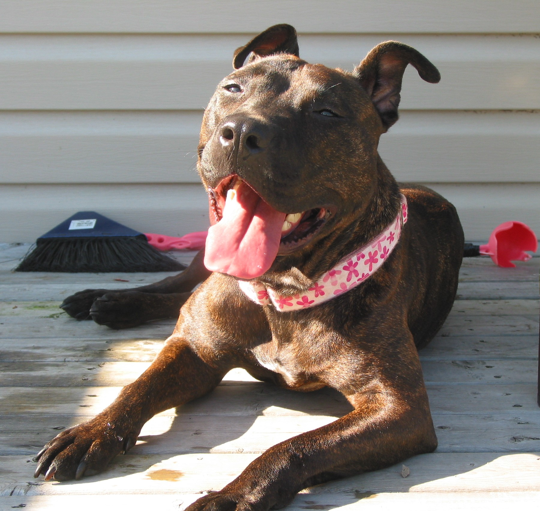 American Pit Bull Terrier enjoying the sun